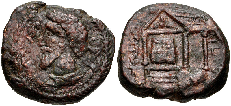 Coinf of Wa'el, king of Edessa (163–165).